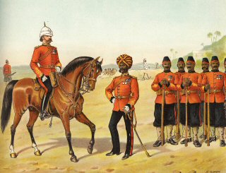 The Queen's Own Madras Sappers and Miners, Review Order